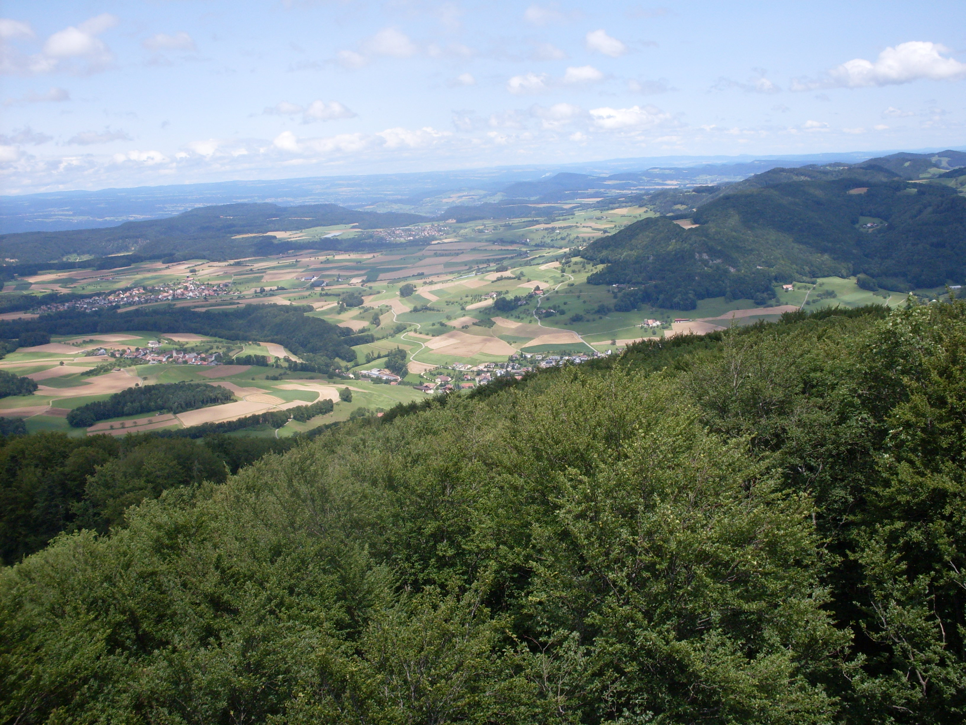 Landscape around the Wisenberg, Switzerland